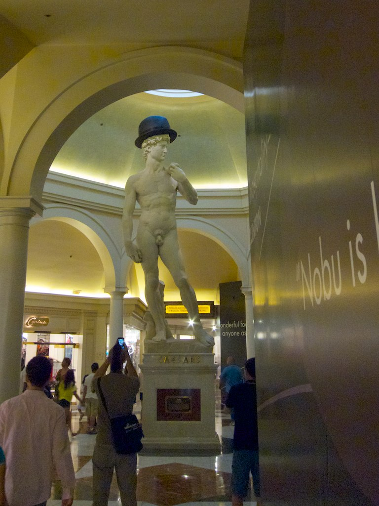 At the 15th Black Hat briefings, Caesar's got a Black Hat for David.